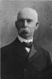 Grenville C. Emery photo from Press Reference Library (Southwest Ed.) ...: Being the Portraits and Biographies of Progressive Men of the Southwest ... (Google eBook) (Los Angeles Examiner, 1912) pg. 334